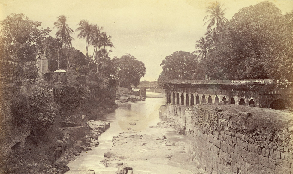 Photograph of Aurangabad from the Allardyce Collection: Album of views and portraits in Berar and Hyderabad, taken by an unknown photographer in the 1860s. This view is of the Kham River, the city lies along its right bank.